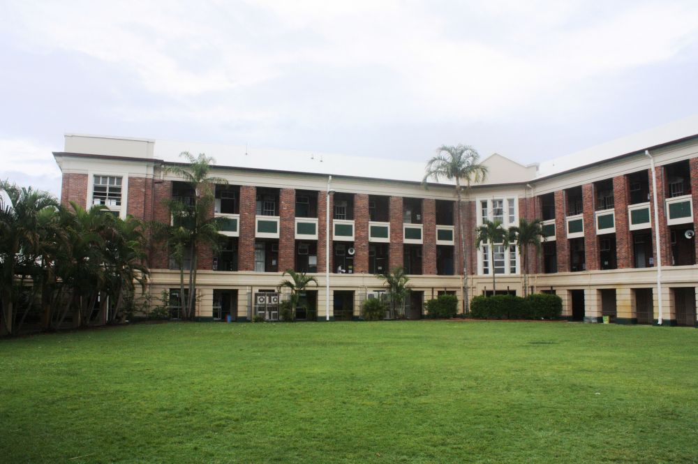 Cairns Technical College and High School Building, 2013, view from interior quadrangle